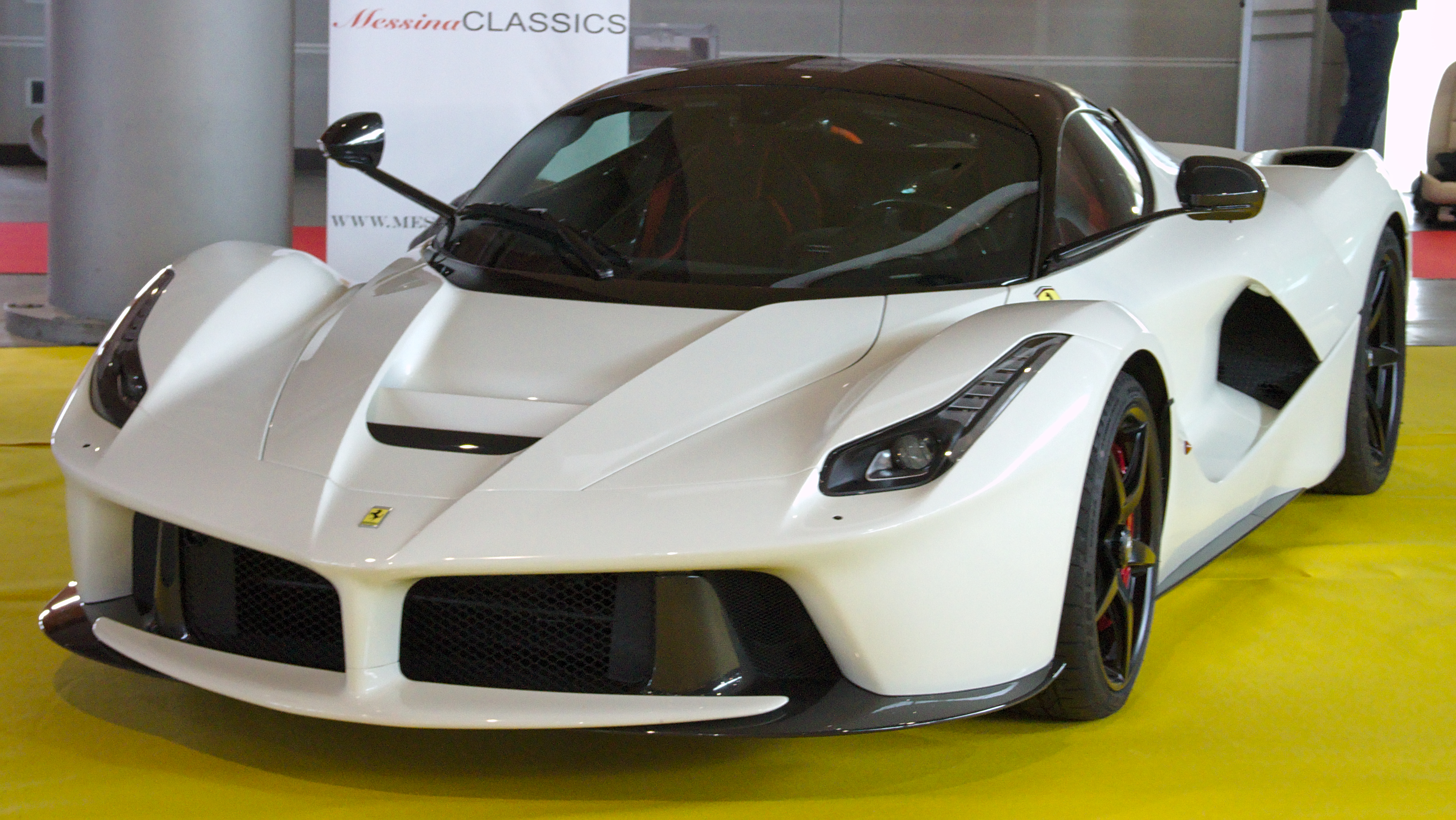 Ferrari_LaFerrari at Retro Classics 2020